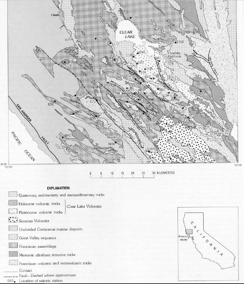 The Geysers geologic map